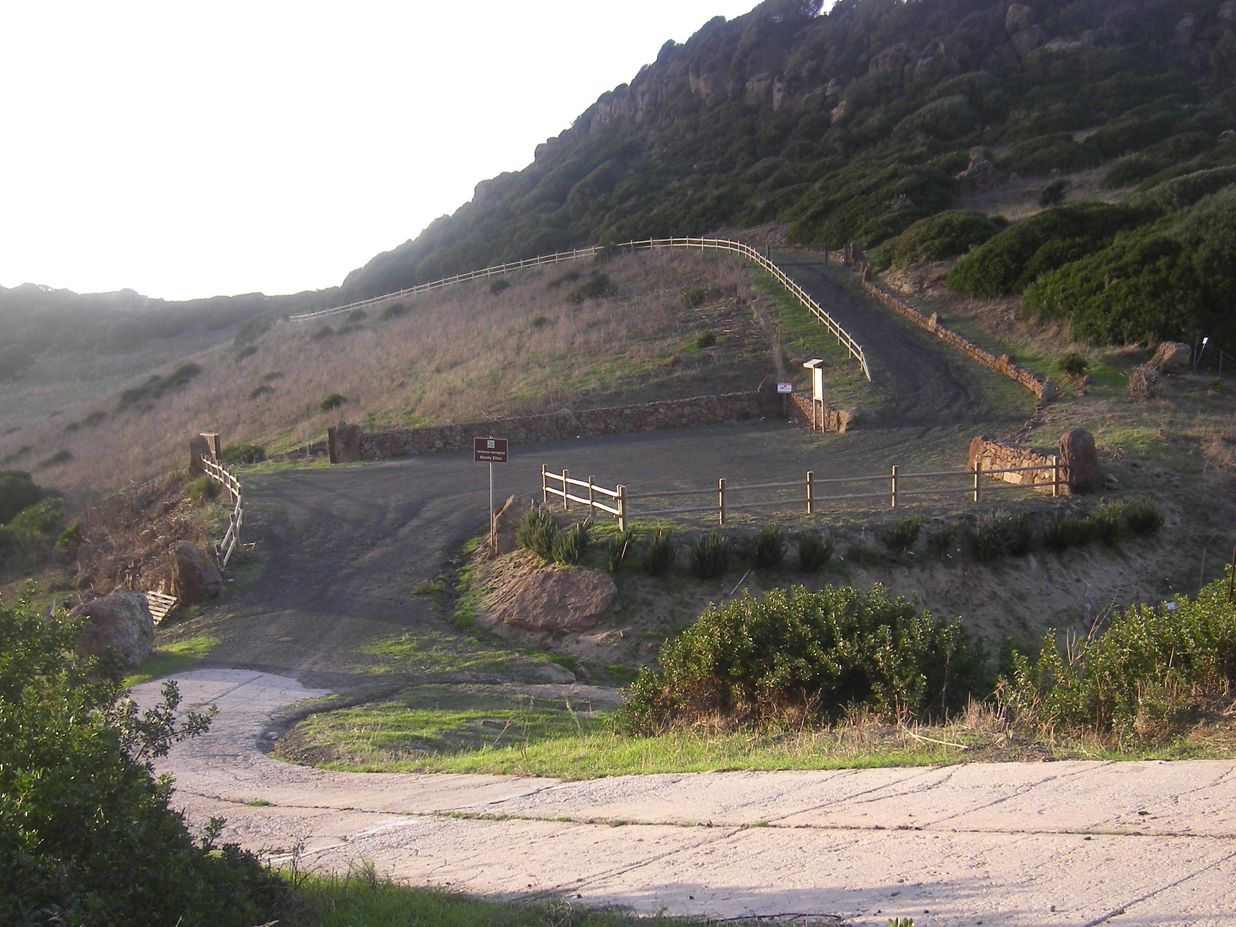 Nuragic fortress of Monte Elias near Tergu